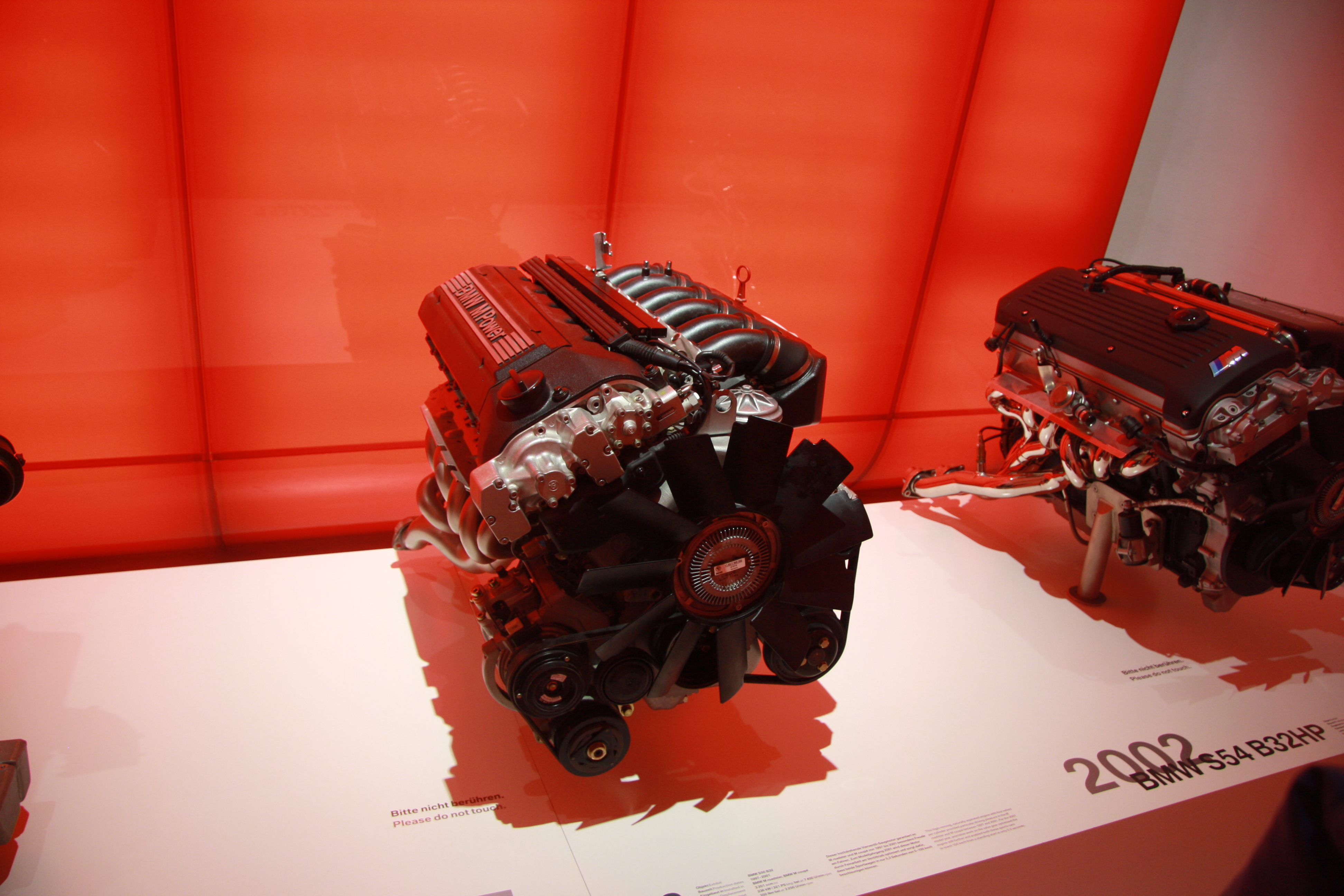 BMW S50 B32 engine in BMW-Museum in Munich, Bayern.